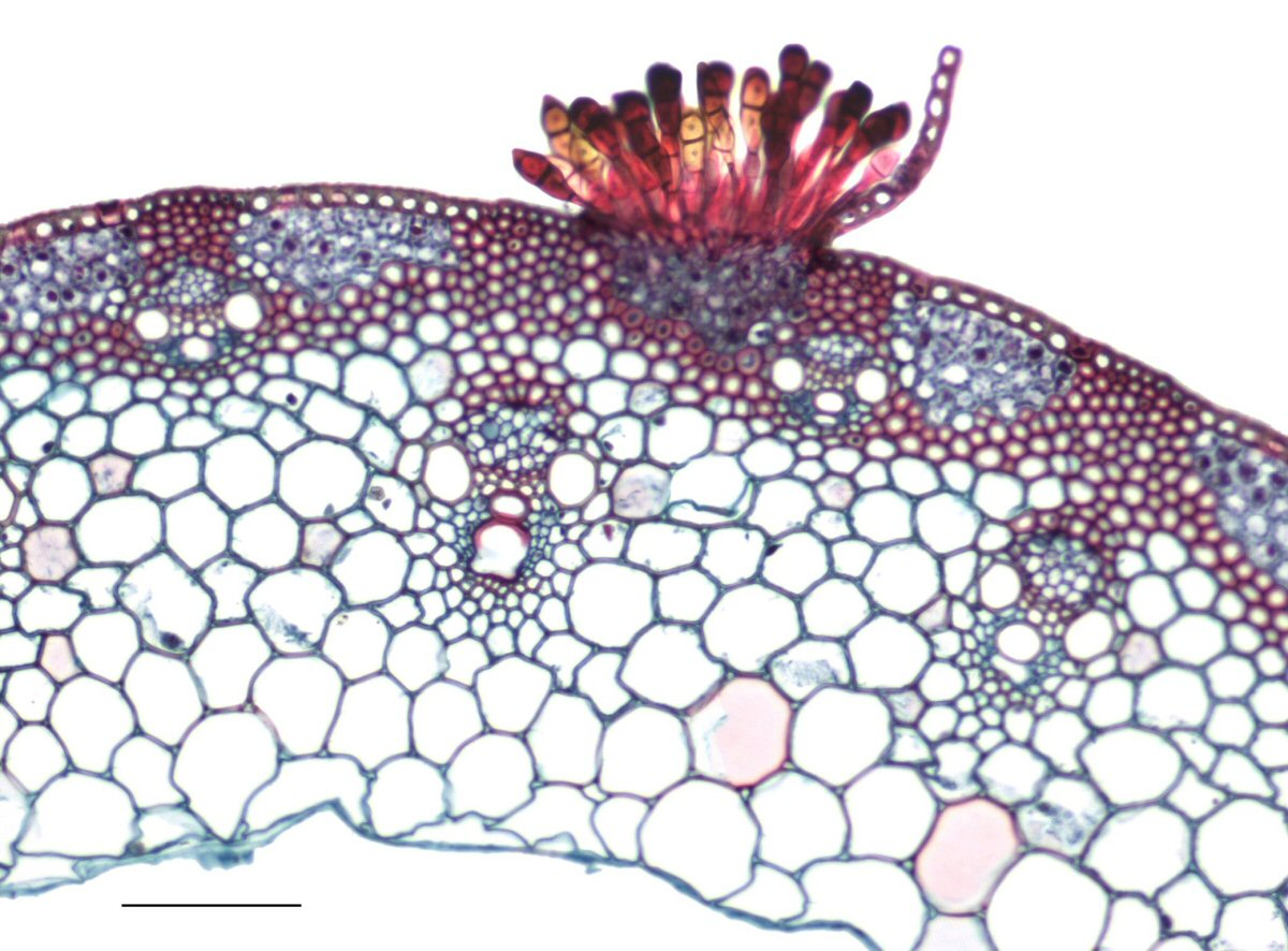 Light microscopy of Puccinia grammis with the telia and its teliospores on the epidermis of the stem. Scale bar = 0.1mm.